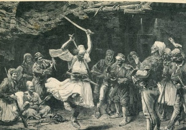 Gravure Turkish-Albanian in dancing